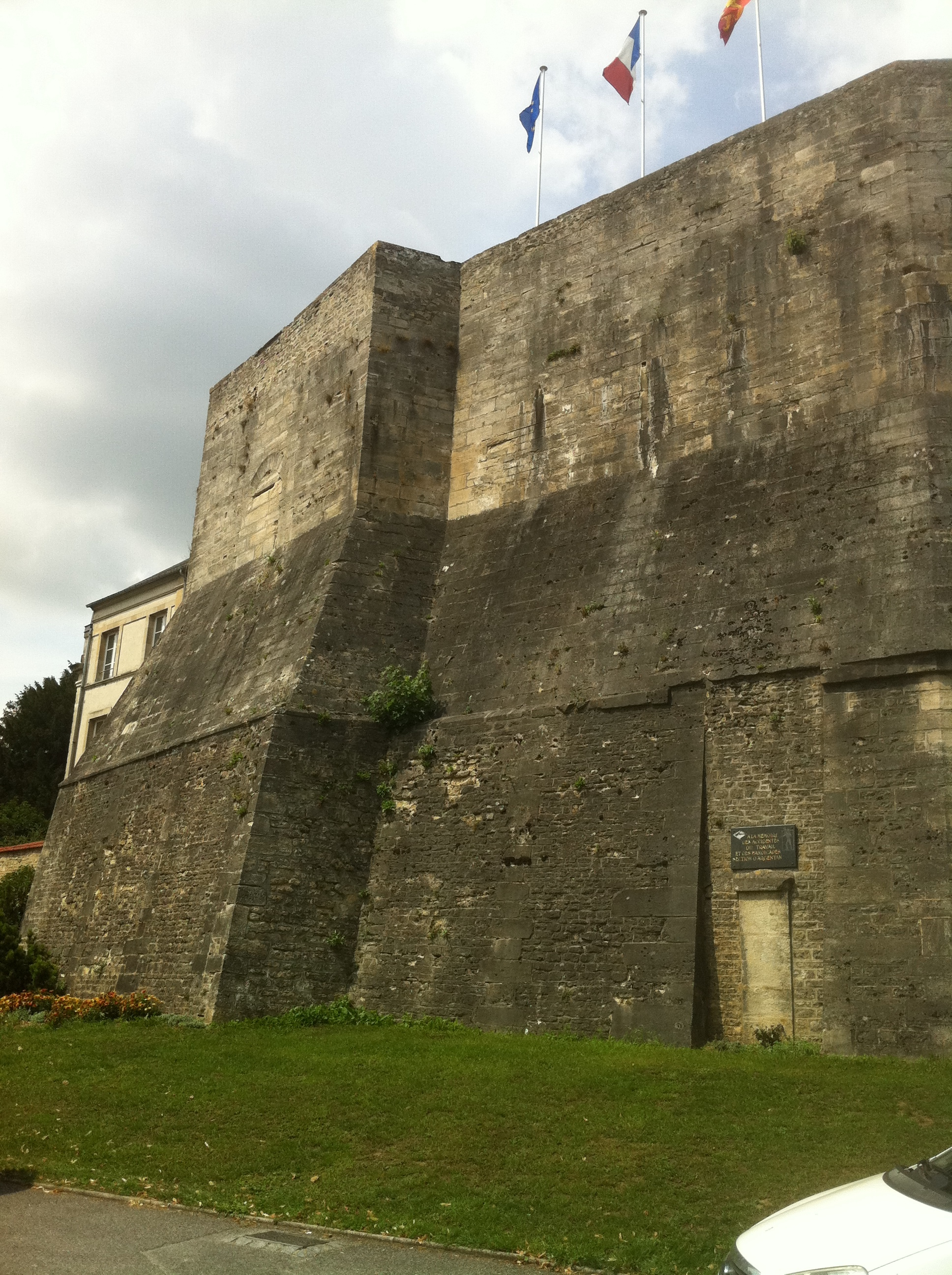 surviving wall of 12th century donjon